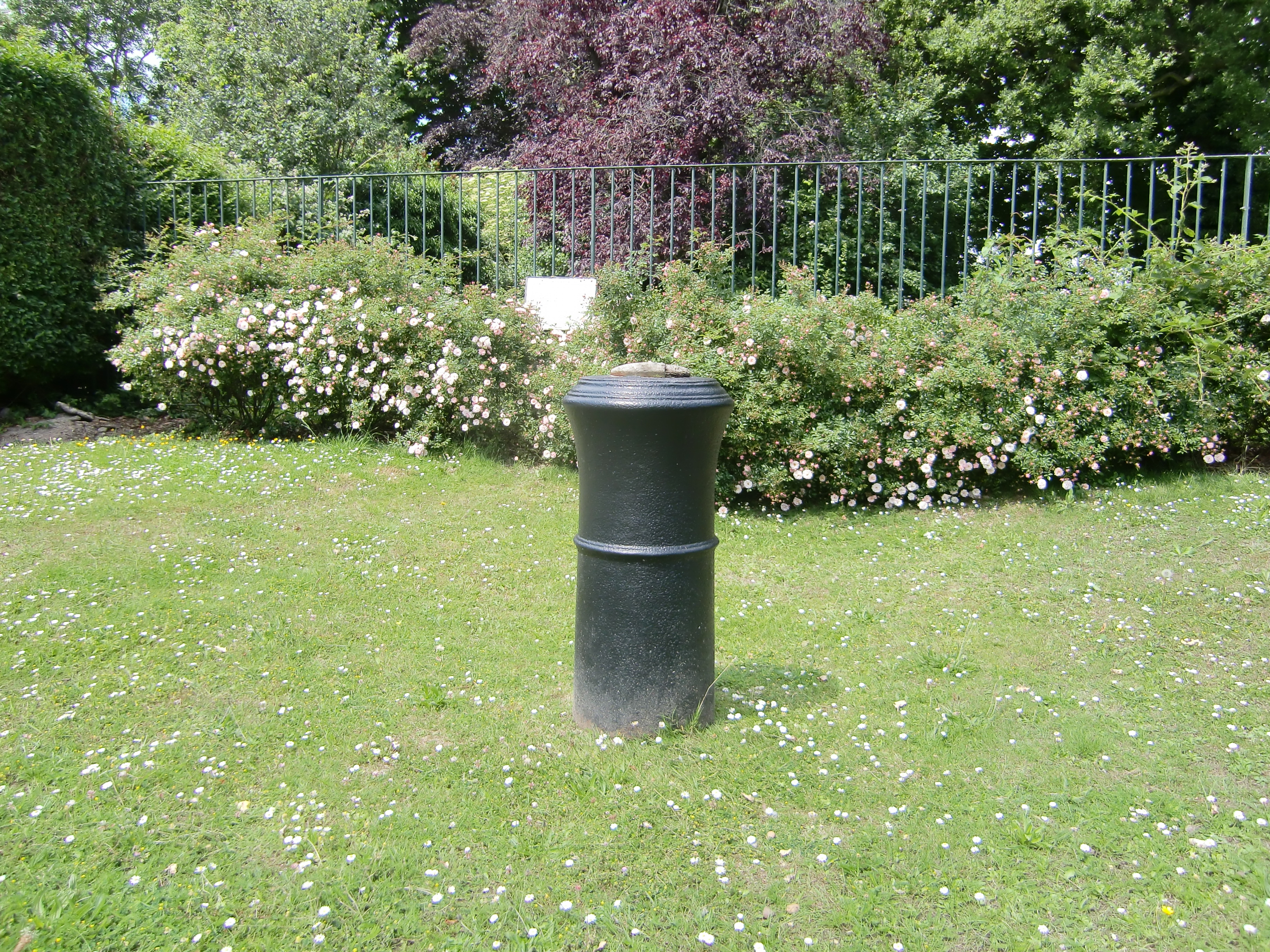 Cannon in Roy Grove, Hampton, Middx. Marking one end of the first line of the original triangulation of great Britain by General William Roy. I also have a close up photo of the 1926 plaque that is visible in the background, but I haven't loaded it as I assume it is of a copyright work.